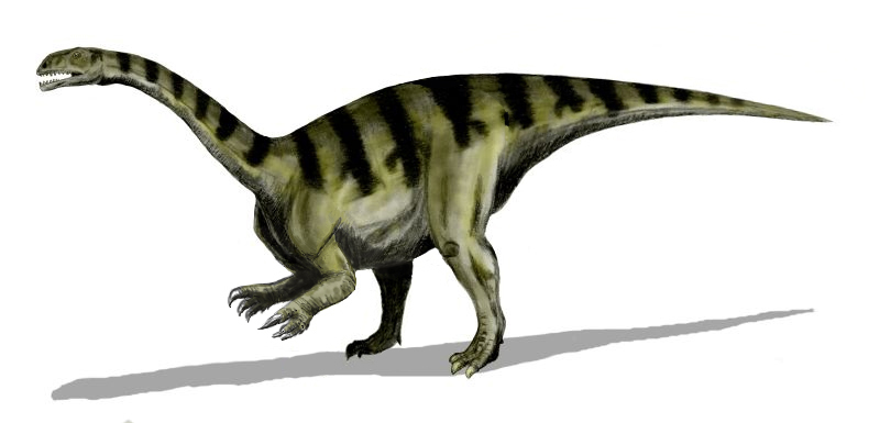 Plateosaurus gracilis (jr synonym: Sellosaurus gracilis), a prosauropod from the Late Triassic of Europe, pencil drawing, digital coloring, skull based on [1]